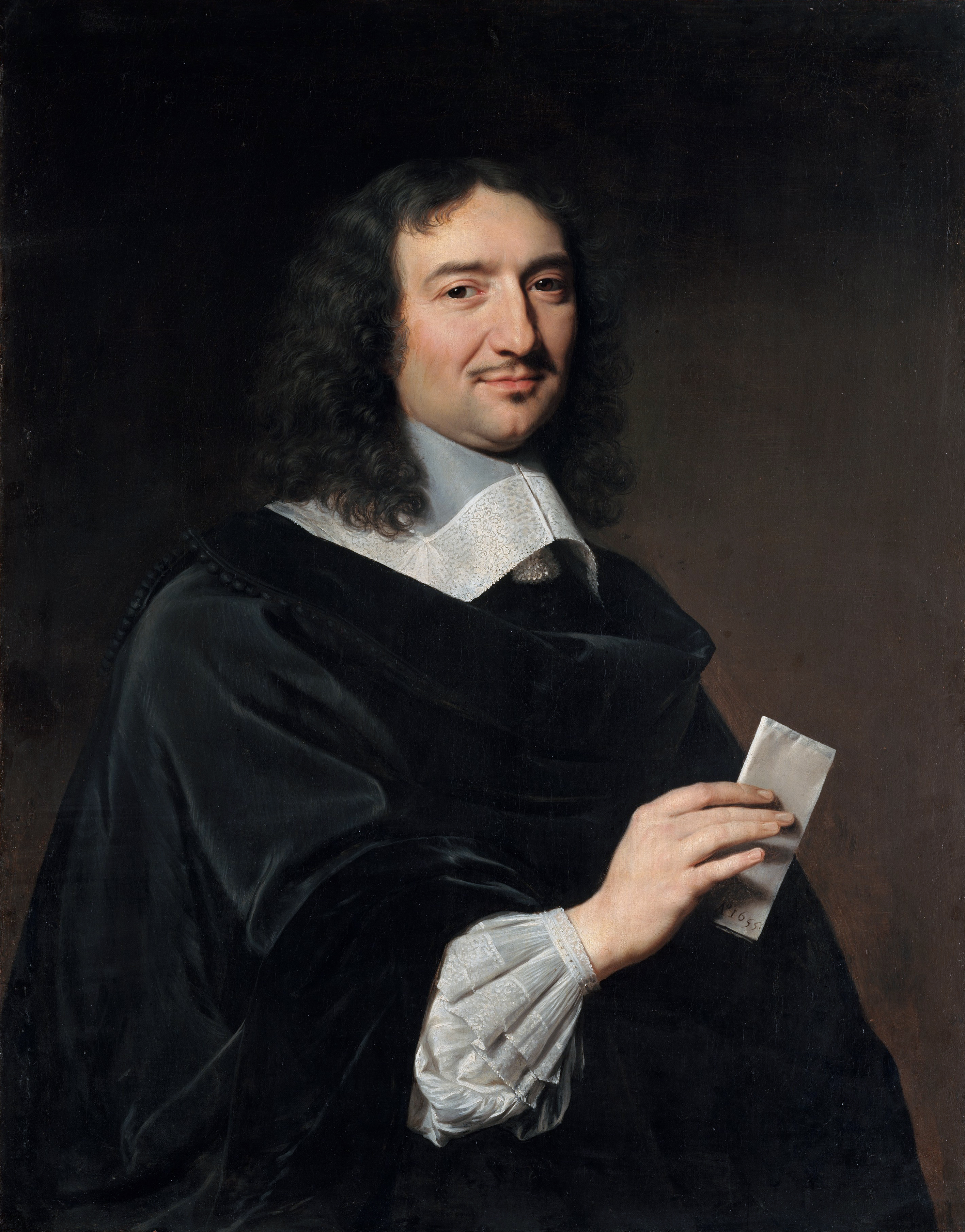 Caption from the museum's website In 1651 Colbert joined the household of Cardinal Mazarin, principal advisor to Queen Anne of Austria during the minority of Louis XIV (1638–1715), and one of the great collectors of the seventeenth century. Having recouped the cardinal’s fortune, Colbert entered the king’s service and, ten years after he sat for this portrait, was appointed minister of finance. He was instrumental in reforming the arts to serve the monarchy. In 1648, he and Charles Le Brun took charge of the Académie Royale and in 1666 founded the French Academy in Rome.